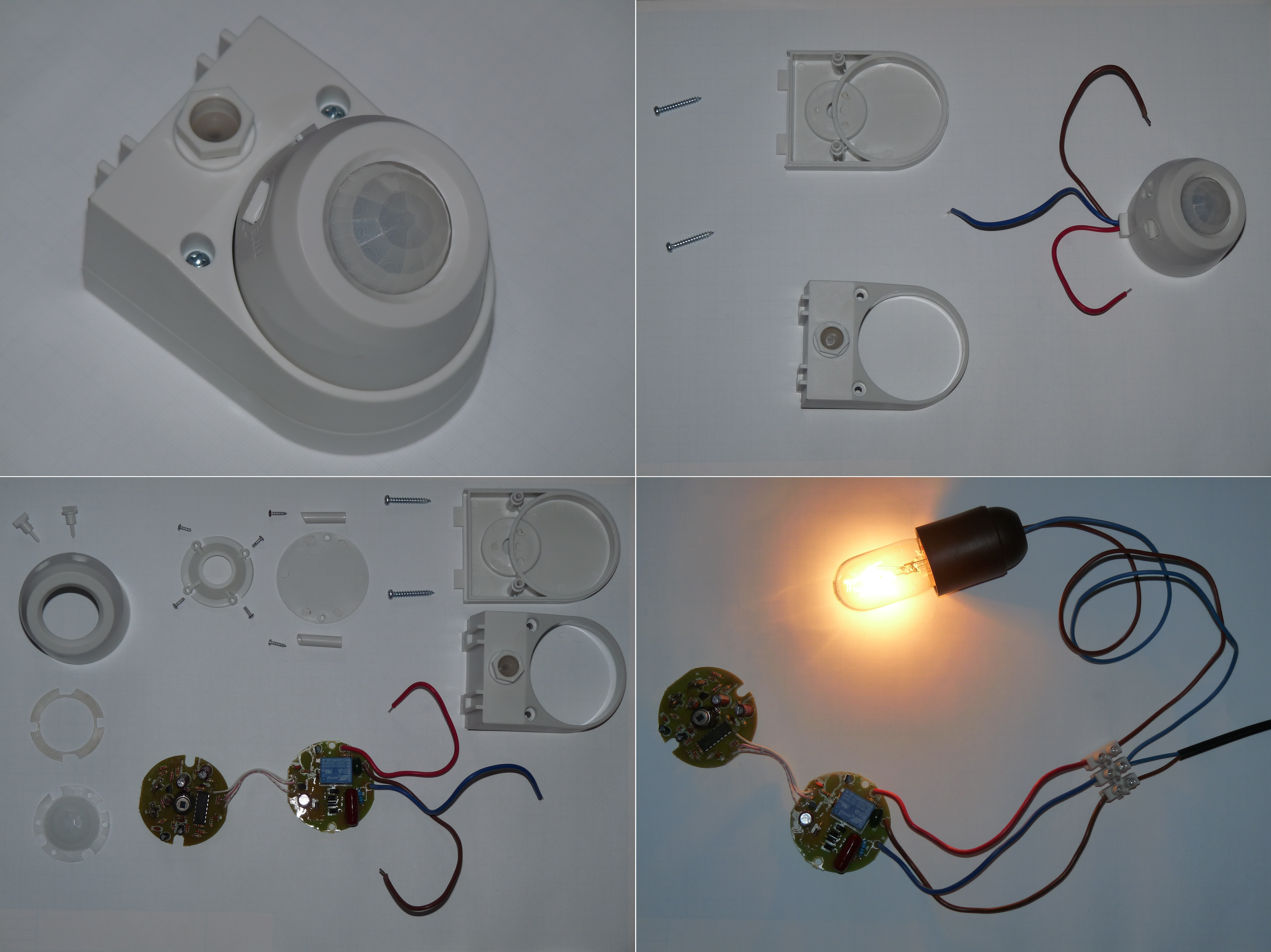 Cheap Chinese motion detector on LM324 integrated circuit